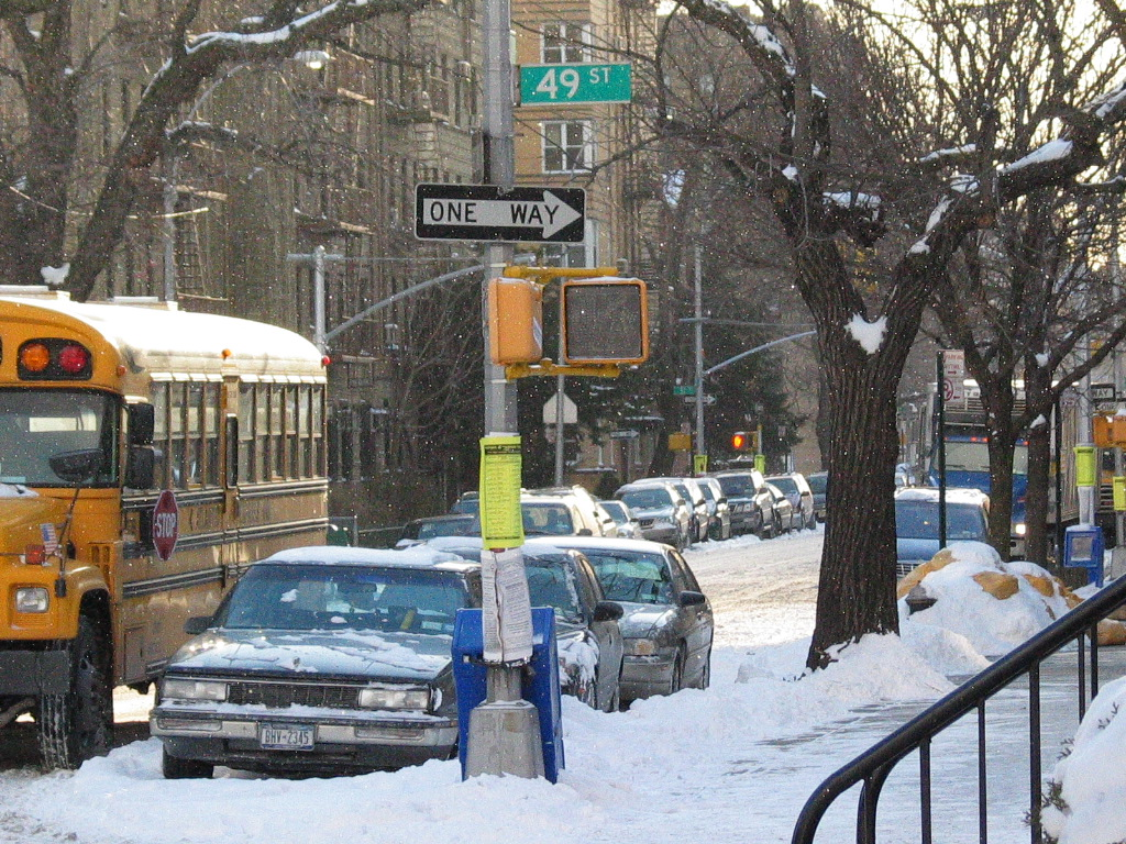 Typical Borought Park Street Scene